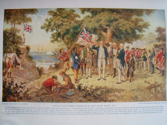 Captain Cook takes formal possession of New South Wales, Possession Island, 22 August 1770. During his first voyage of discovery Captain Cook sailed up the east coast of Australia, landing at Botany Bay. Reaching the tip of Queensland, he named and landed on Possession Island, just before sunset on Wednesday 22 August 1770, and declared the coast a British possession: "Notwithstand[ing] I had in the Name of His Majesty taken possession of several places upon this coast, I now once more hoisted English Coulers and in the Name of His Majesty King George the Third took possession of the whole Eastern Coast by the name New South Wales, together with all the Bays, Harbours Rivers and Islands situate upon the said coast, after which we fired three Volleys of small Arms which were Answered by the like number from the Ship."